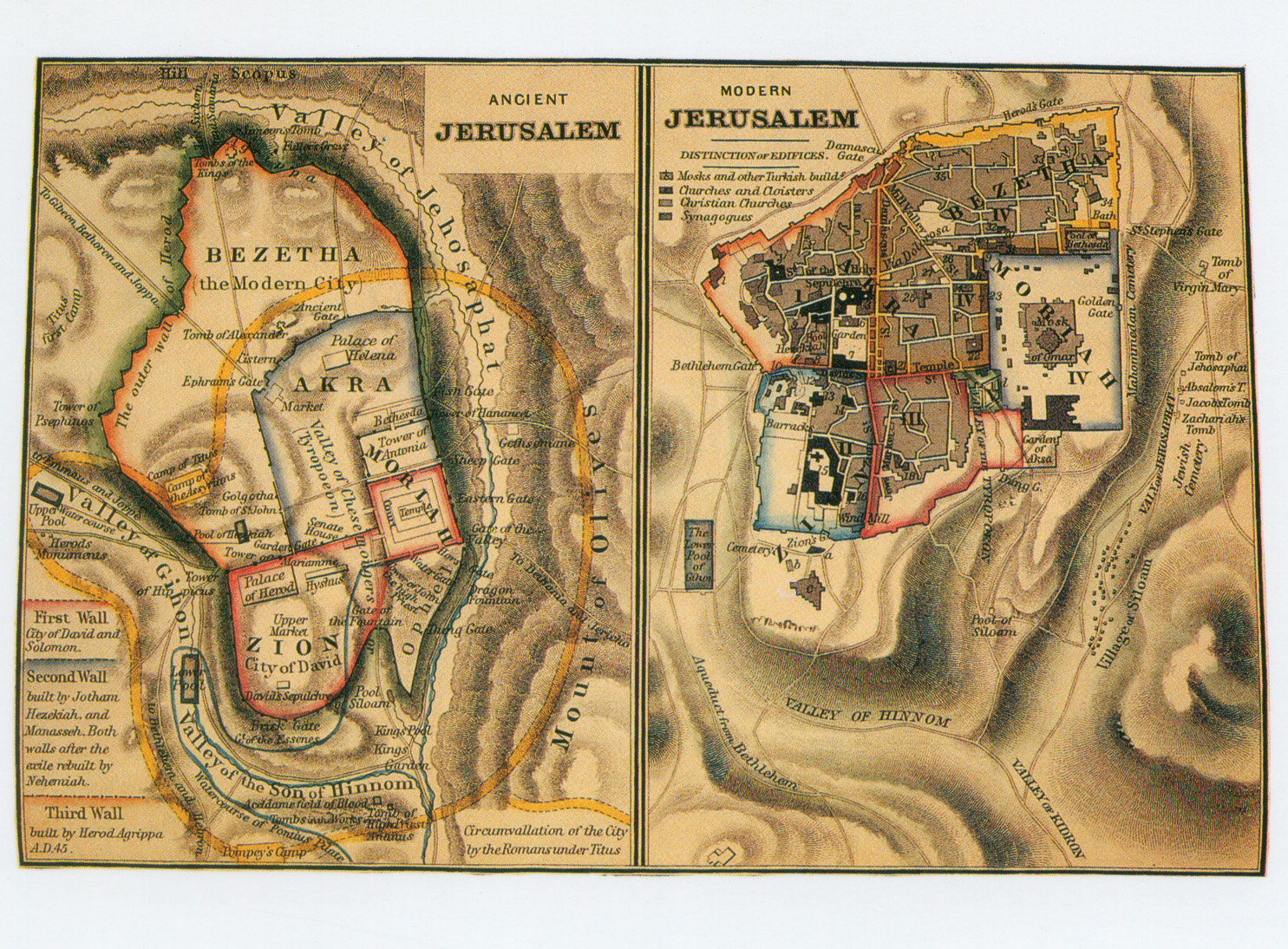 Ancient Jerusalem and Modern Jerusalem. ANCIENT JERUSALEM / MODERN JERUSALEM Lyman Coleman, in Text Book and Atlas of Biblical Geography, Philadelphia, 1854 Osher Collection, University of Southern Maine This is the frontispiece of a popular nineteenth-century biblical geography book designed to call attention to "a most important but neglected branch of education." "Modern Jerusalem" is actually the old walled city as it existed in the mid-nineteenth century. Many important holy sites are identified, including the ancient Temple, the Church of the Holy Sepulchure, the Mosque of Omar and the "Wailing Wall."